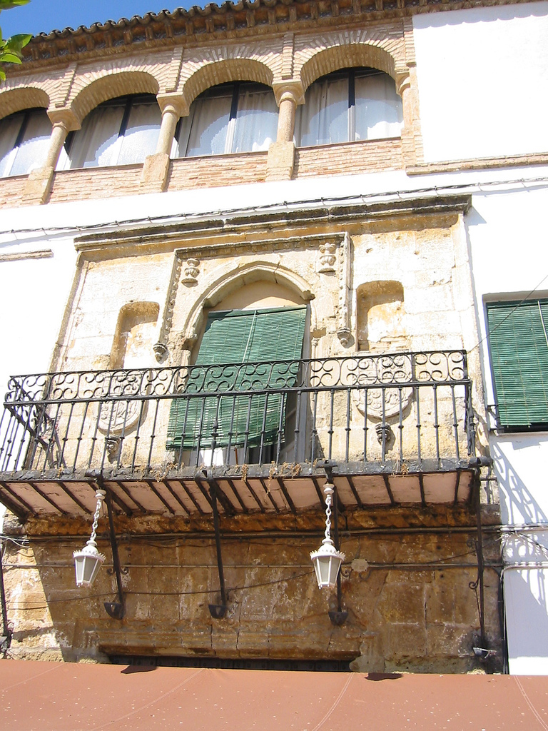 Casa del Corregidor in Marbella (built in 1552), Málaga, Spain.